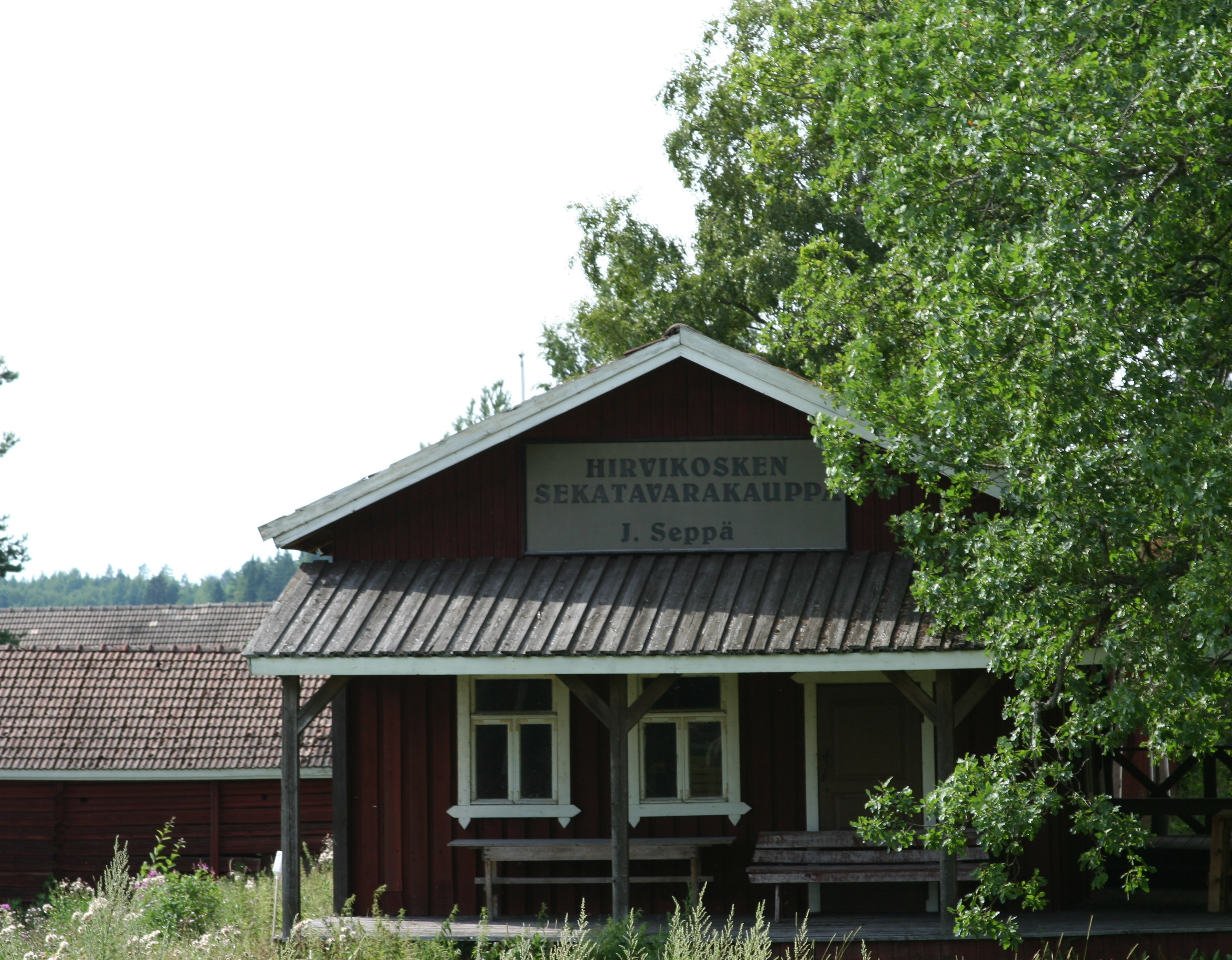 A prop shop in Sastamala, Finland.